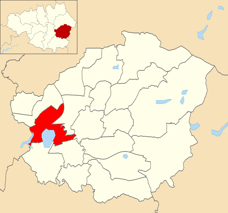 Map showing location of Audenshaw Ward within Tameside Metropolitan Borough Council.